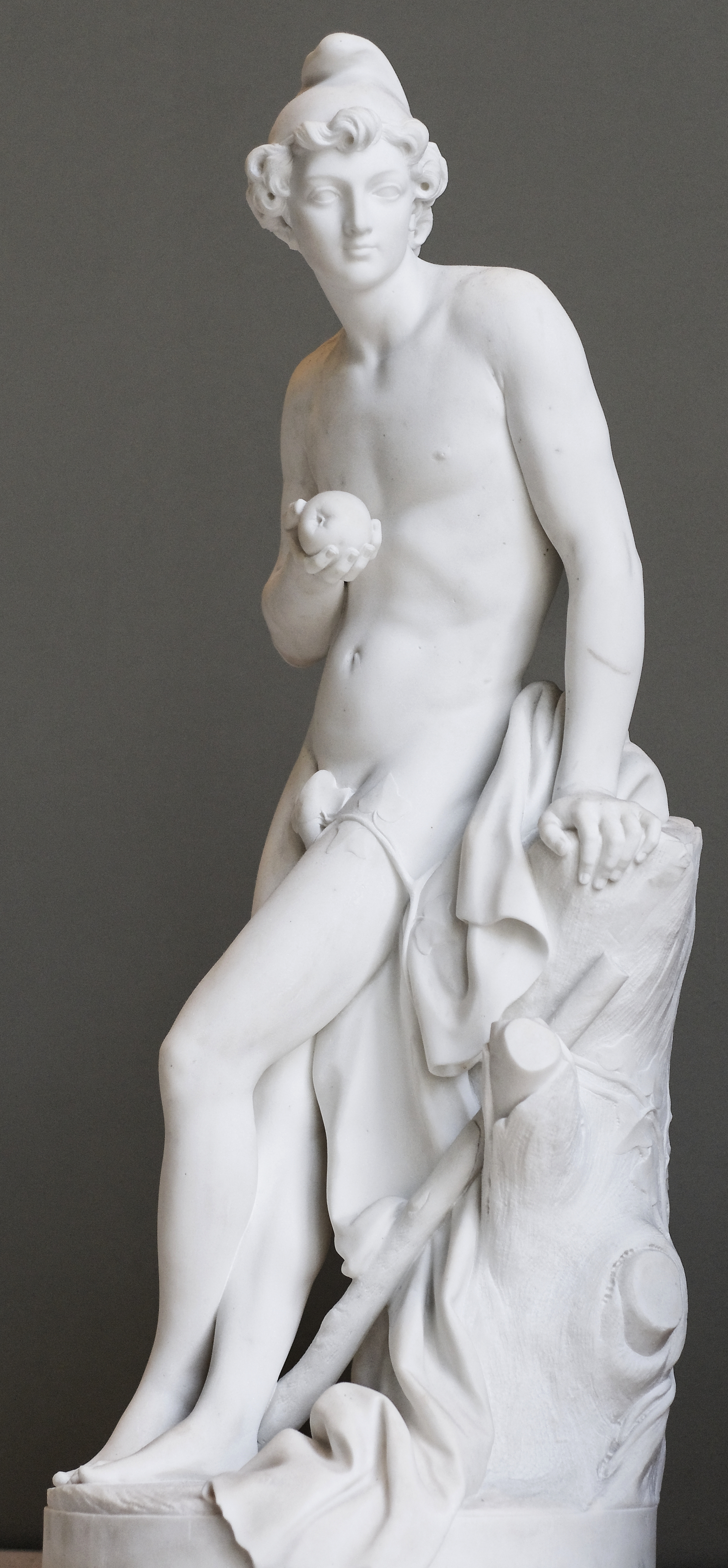 The Shepherd Paris, marble, reception piece for the French Royal Academy.